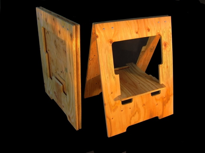 A flat folding sawhorse